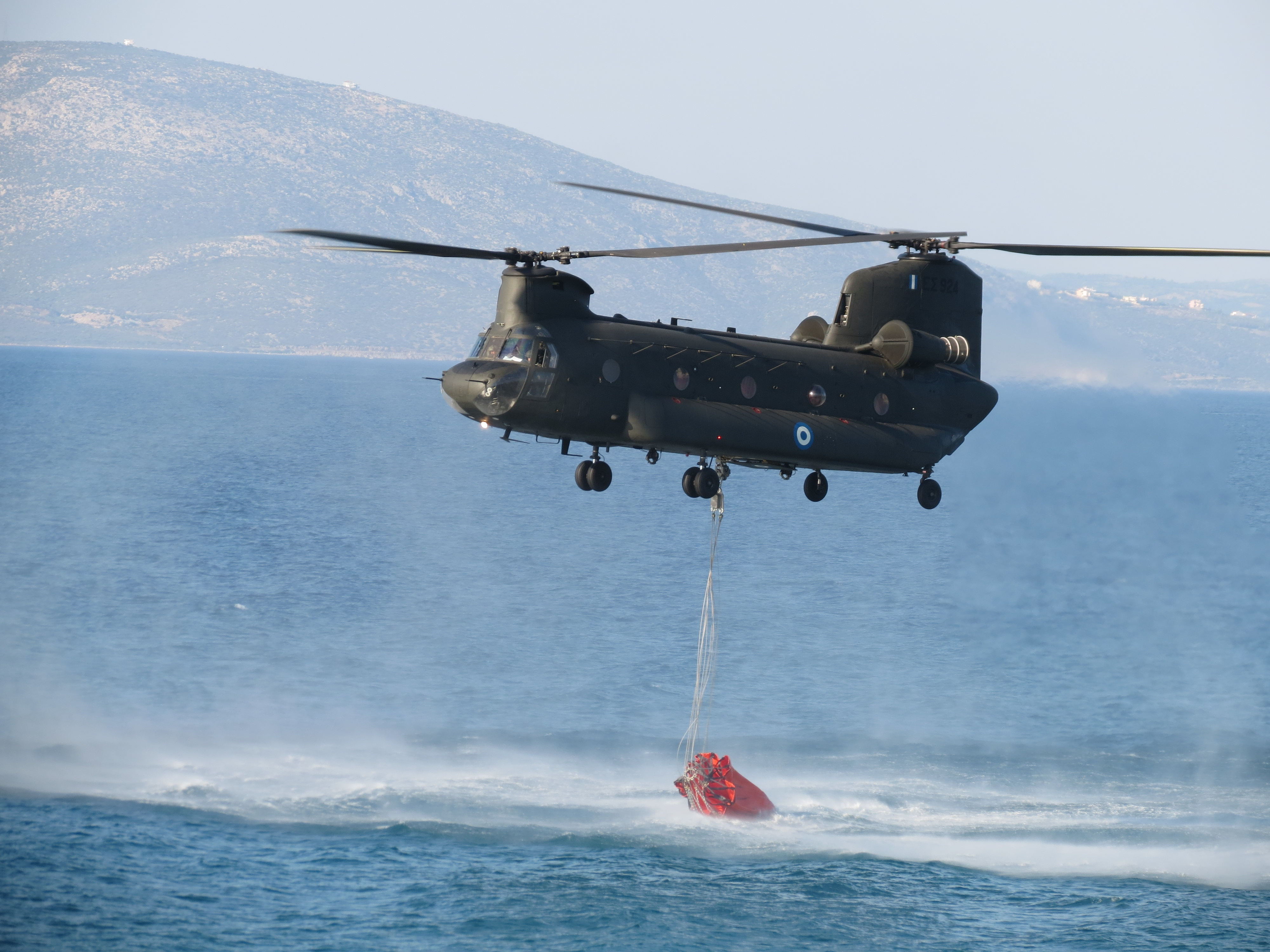 Chinook CH-47D of the Hellenic Army Air force loading water from Ag. Apostolous sea during the fire fighting of the Kalamos fire of August 2017.